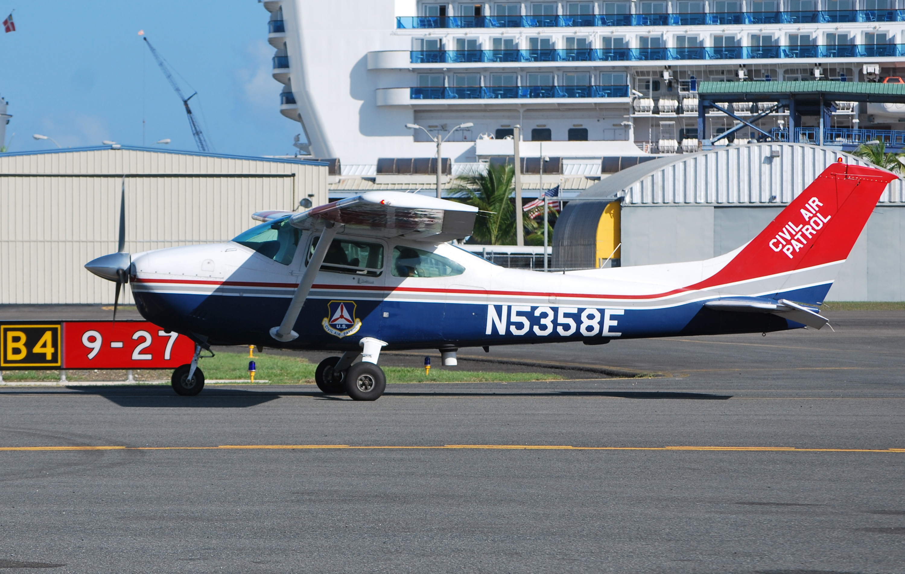 Twelve cadets from the University of Puerto Rico-Rio Piedras, Air Force ROTC Detachment 755 were given the opportunity to fly a Civil Air Patrol Cessna 182 with CAP 1st Lt. Rafael Fernandez, an official civilian USAF auxiliary pilot, Nov. 22. Each one-hour flight was comprised of three cadets and Lieutenant Fernandez. The orientation flights were organized under the Air Force ROTC Flight Orientation Program, which partners CAP and AFROTC cadets and capabilities as a reward and motivational experience to educate cadets on the available Air Force aviation opportunities. (Courtesy photo